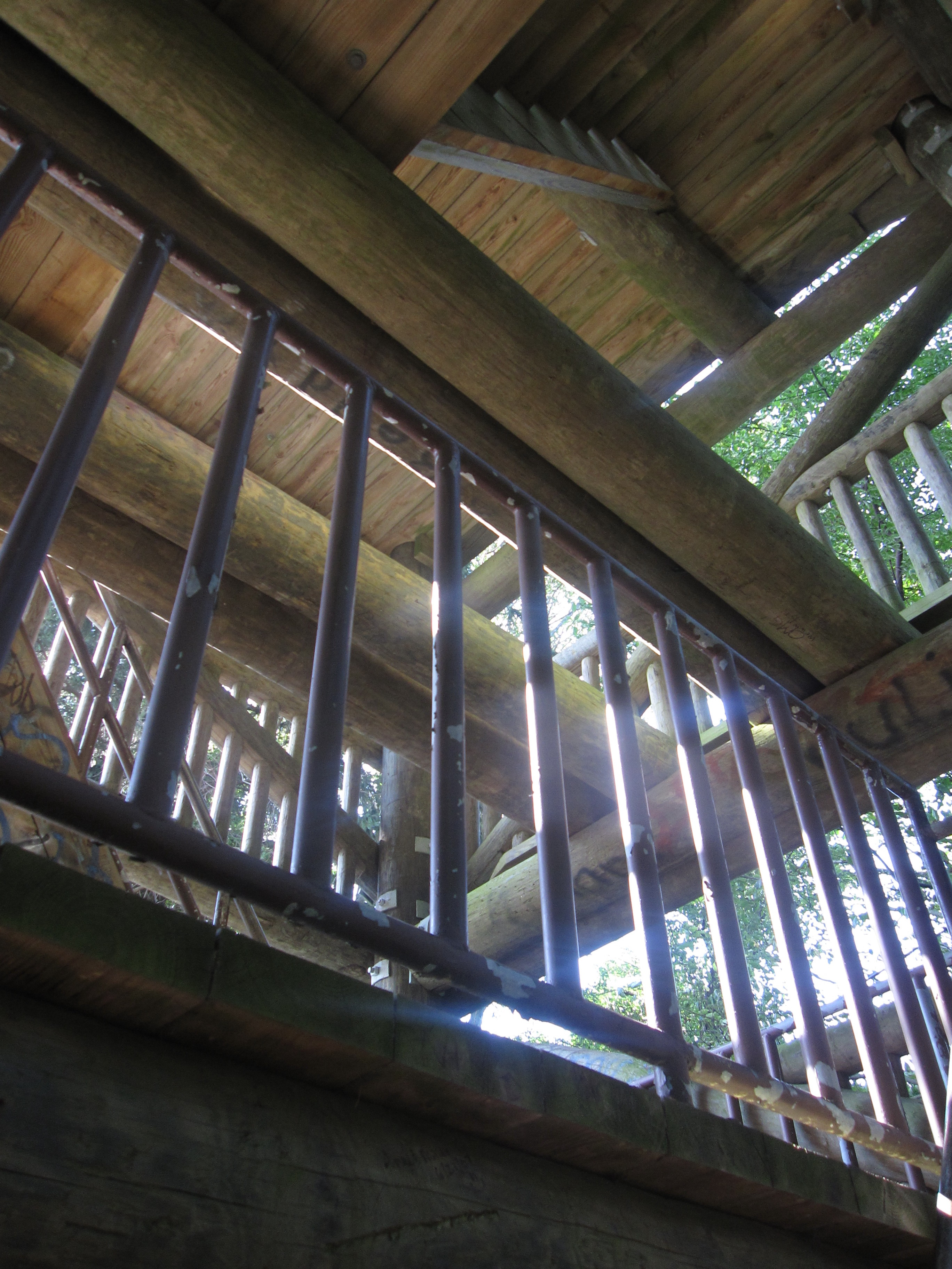 Interior view of the Hannah Robinson Tower, an observation tower in South Kingston, RI